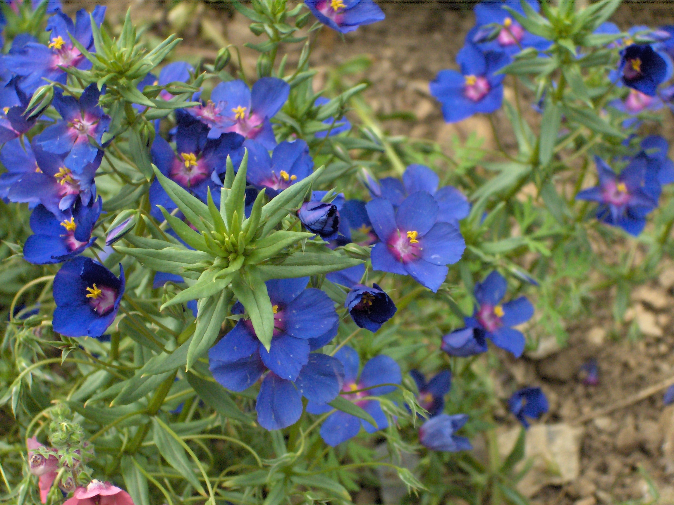 Anagallis monelli Image by User:Qwertzy2.